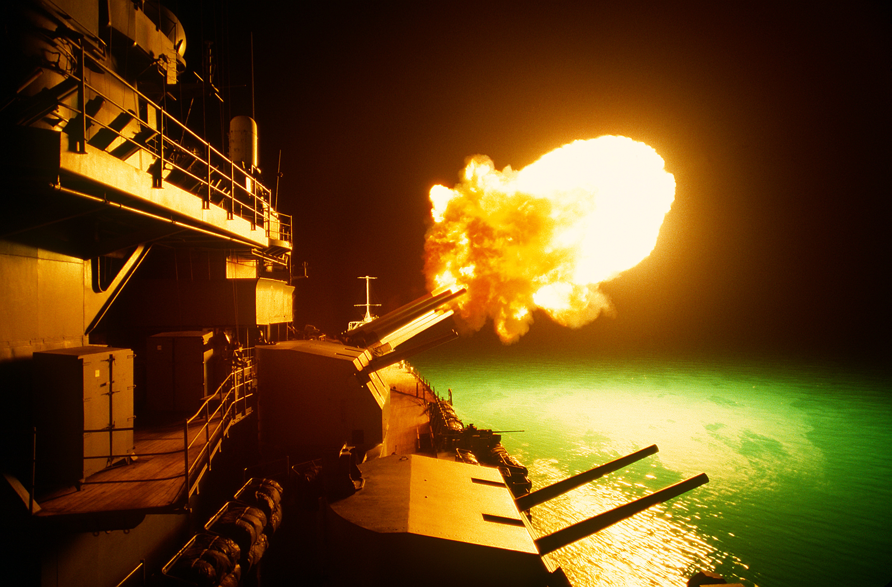 " 16-inch (410 mm) guns fired aboard the battleship USS MISSOURI (BB-63) as night shelling of Iraqi targets takes place along the northern Kuwaiti coast during Operation Desert Storm."